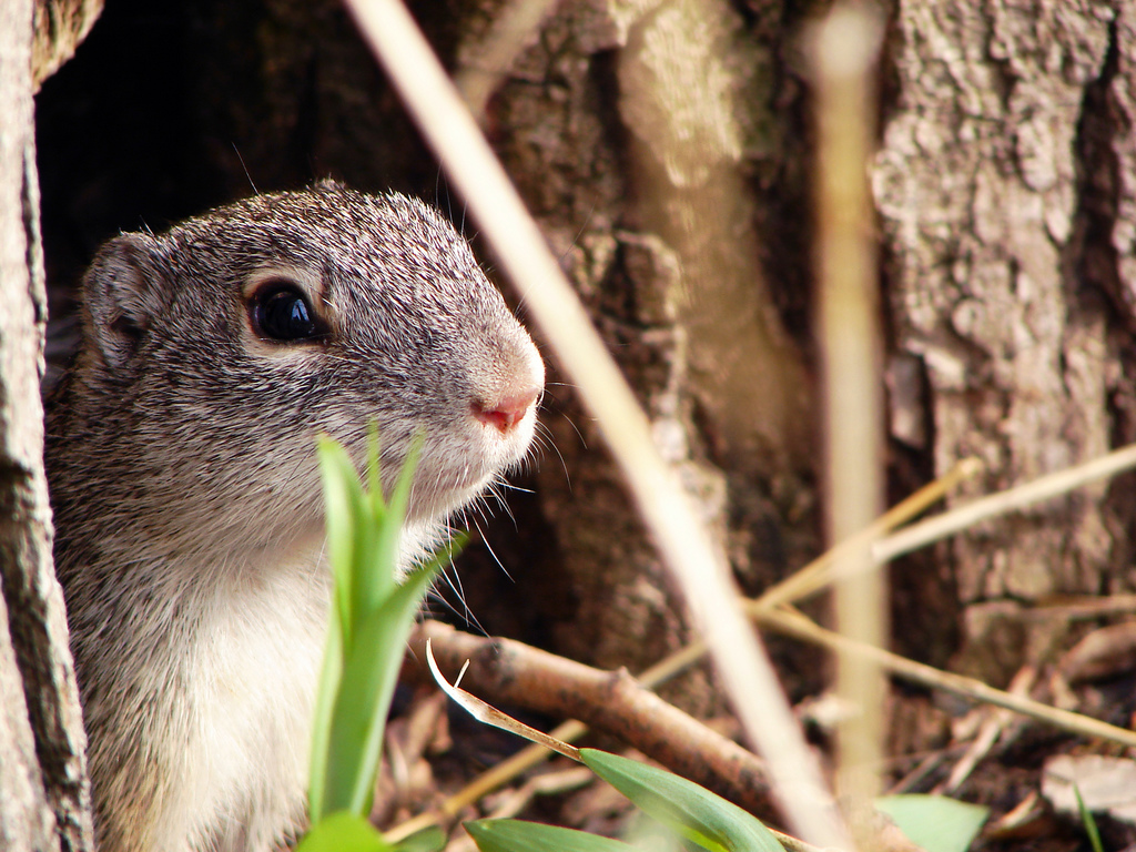 A Franklin's ground squirrel, Spermophilus franklinii, out at "the desert" near Bismarck, North Dakota. Oddly enough, "the desert" isn't really a desert. This is the same one from my other photos. He ran inside a hollow tree, so I hid around the corner from it. Every time he poked his head out to see if I was gone I'd take his picture. The Northern Prairie Wildlife Research Center (NPWRC) really needs to update their website. They don't even include this species in their catalogue of North Dakota small mammals, and only reference it on their S. richardsonii page saying: "Richardson ground squirrels could possibly be confused with the Franklin's ground squirrel which can also be found in eastern North Dakota. The Franklin's is similar in size but has a longer tail and is more grey in appearance." ...even though this is not eastern North Dakota. On a side note, it is kind of sad that I've never even seen a Richardson's ground squirrel, even though they're supposed to live nearly over the whole state. Our old state nickname even came from the squirrels. Maybe they changed it cause they're not so common anymore.